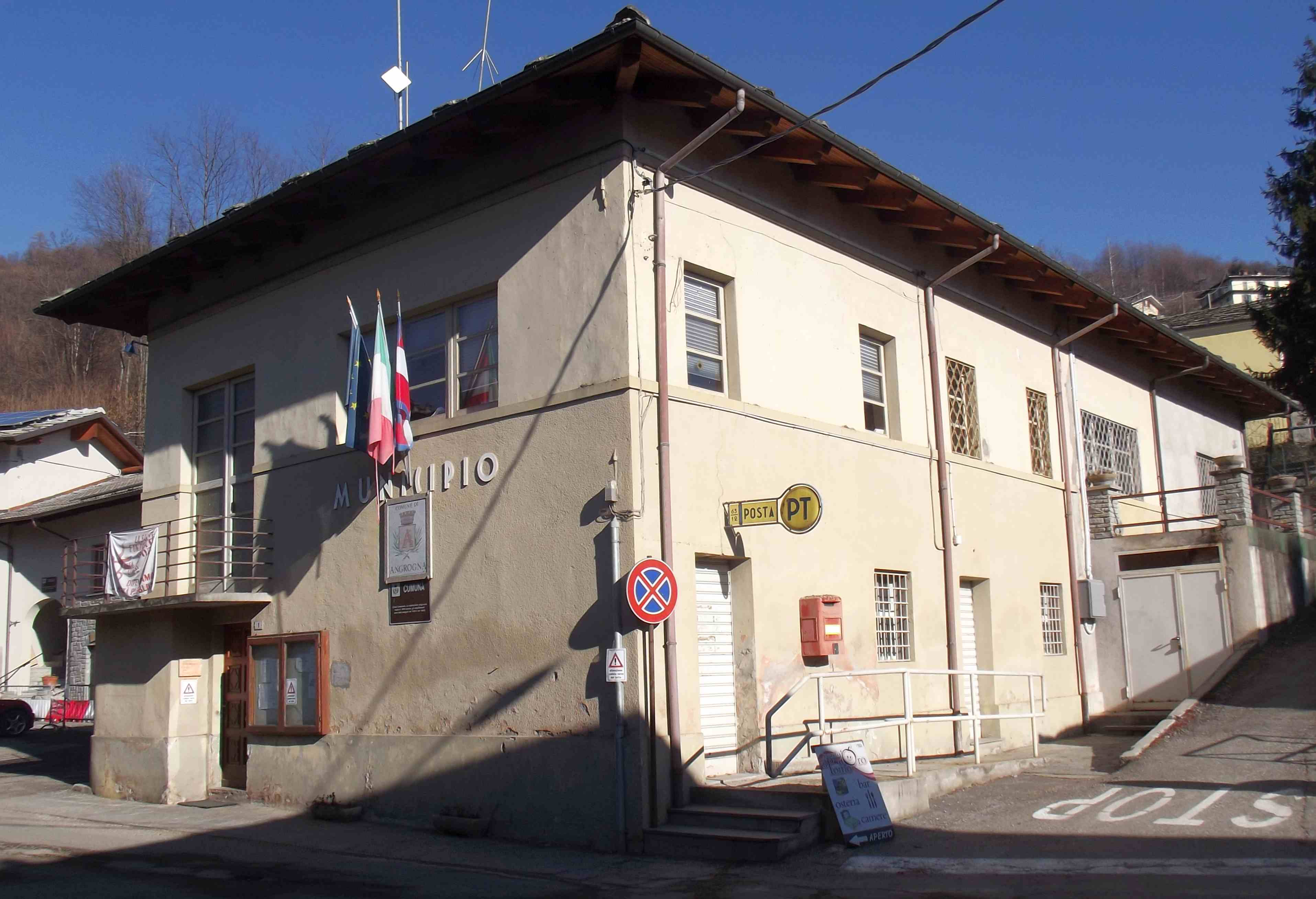 Angrogna (TO, Italy): town hall